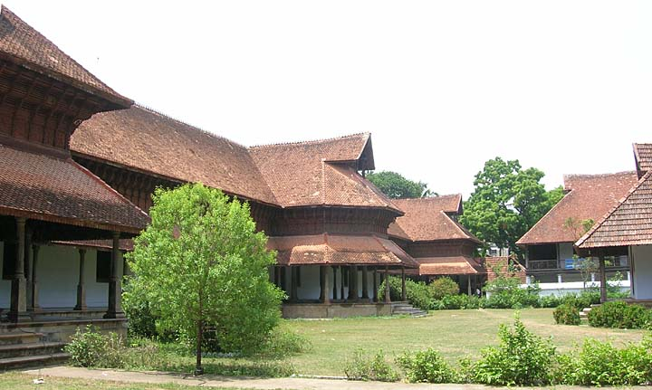 Kuthira Malika - view from the courtyard